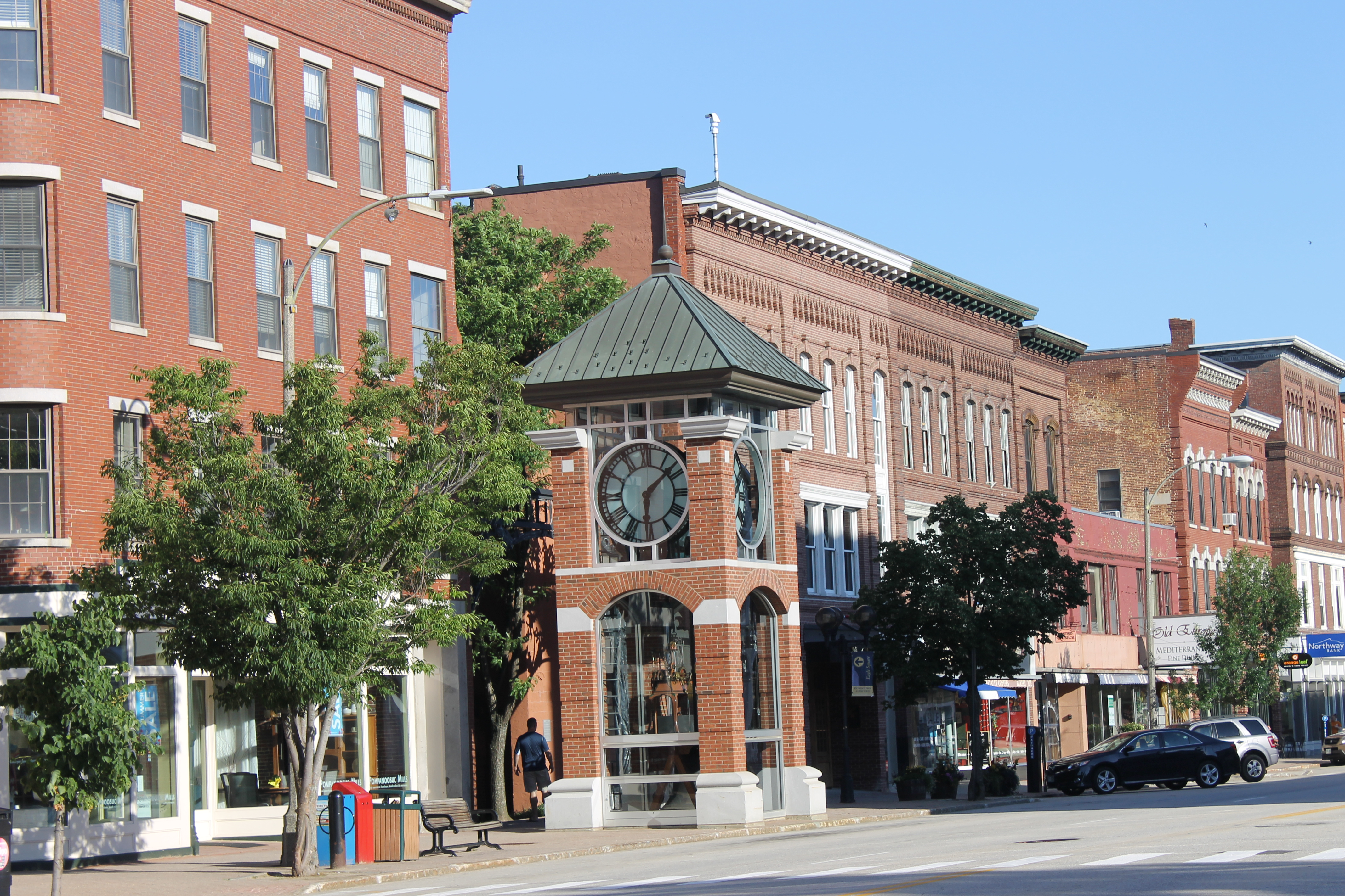 I took photo with Canon camera of downtown Concord, NH.